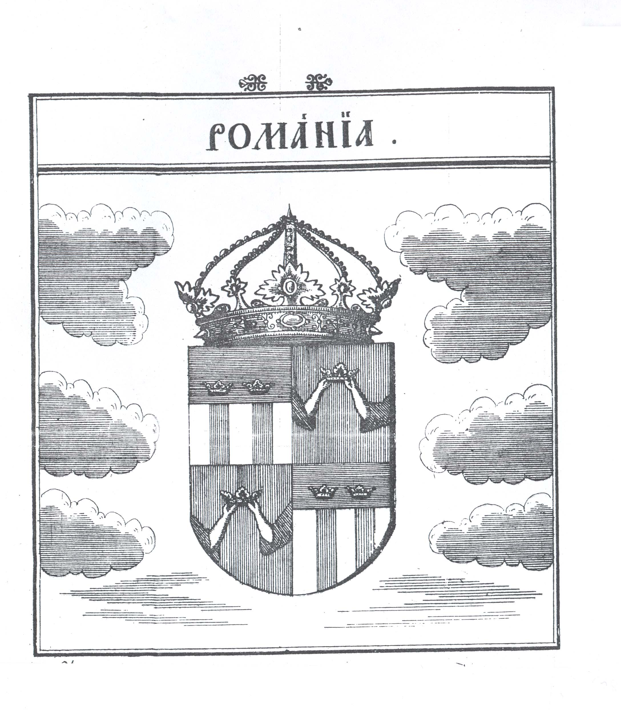 Romanian coat of arms from 1741, later adopted as coat of arms of Eastern Rumelia. From "Stemmatographia" by Hristofor Zhefarovich. The word on top spells "Romania" in Cyrillic letters